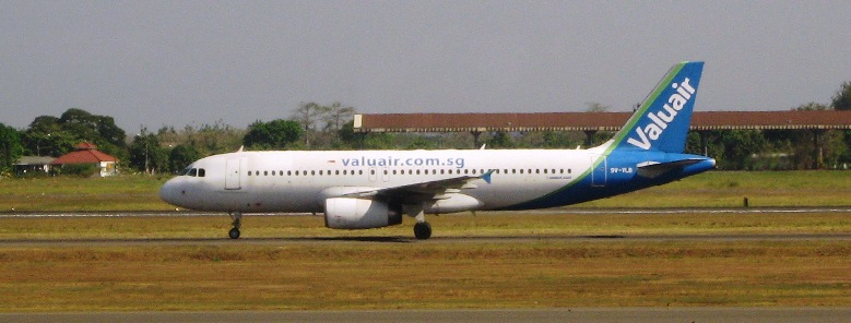 Valu Air at Juanda International Airport, Surabaya